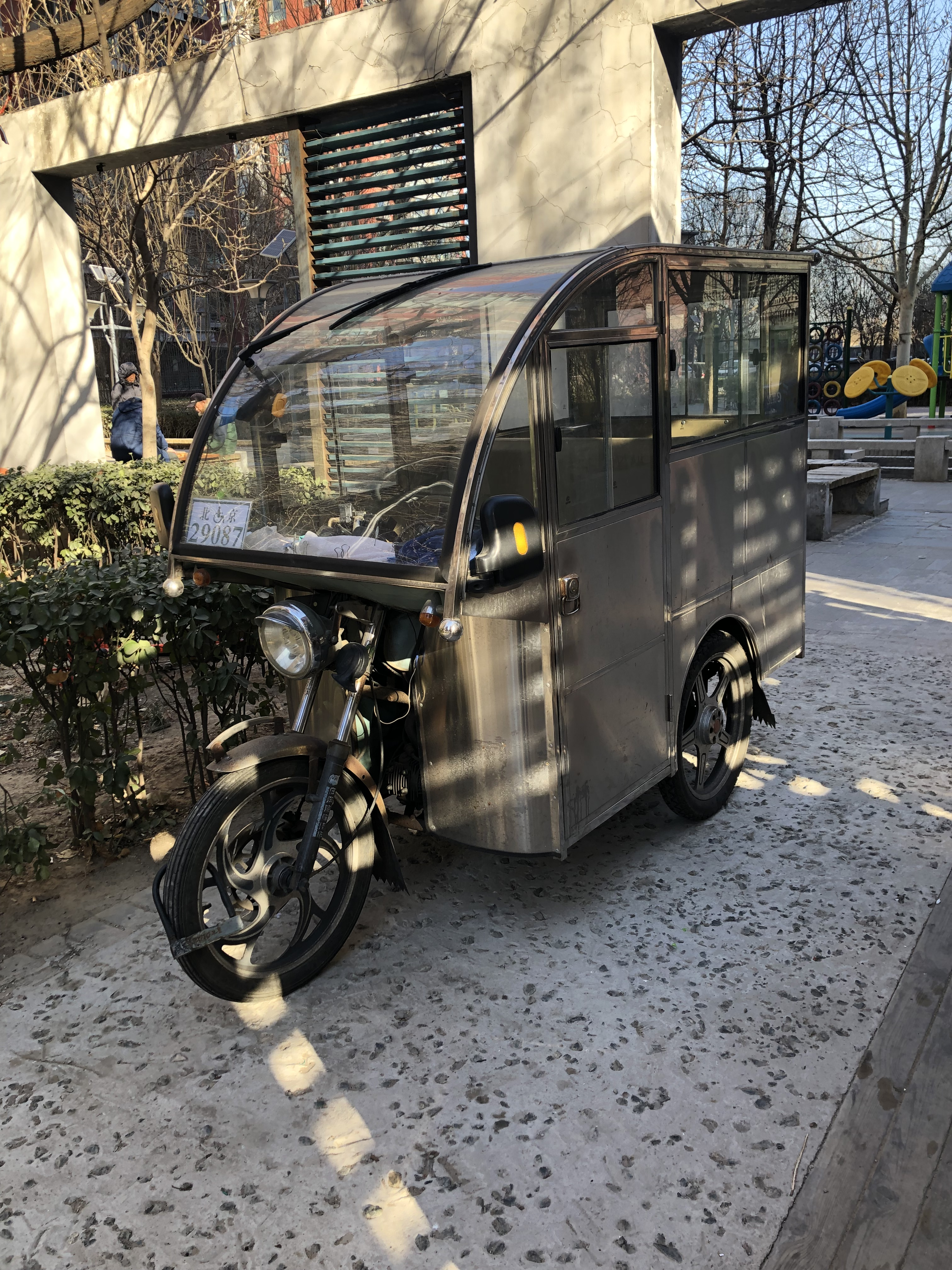 Motor tricycle in Beijing, used to provide paid passenger service, can take 2 passenger in max (not including driver), uses a 12V battery as power source.